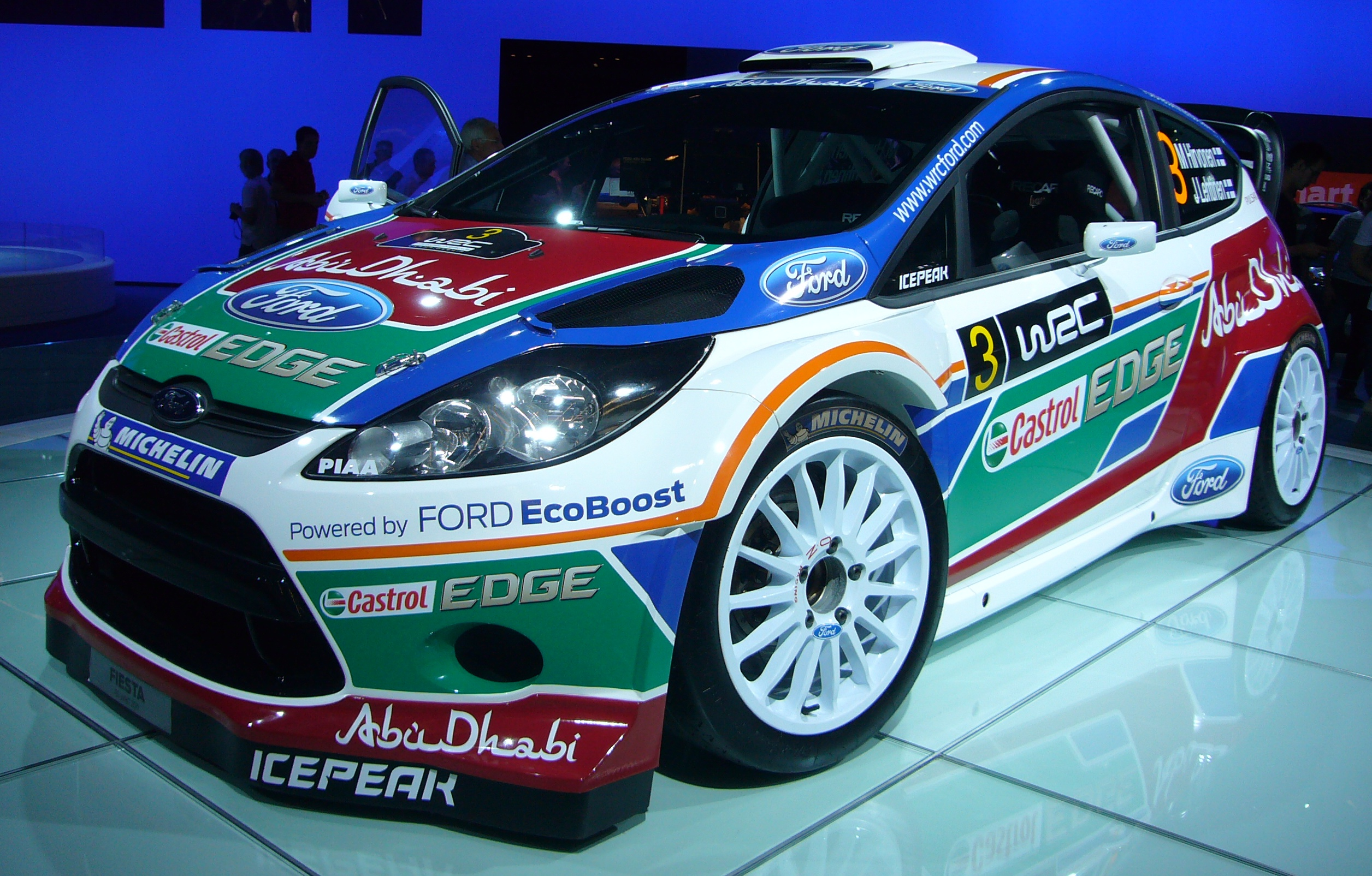 Ford Fiesta WRC (Mikko Hirvonen) at AutoRAI Amsterdam 2011